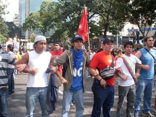 a march to the tribunal supreno de justicia (suprme court), in caracas, venezuela, demanding the nulification of the referendum scheduled for february; it was about unlimited reelection. the protest took place on january 19, 2009. 5 colleges were there. in front of us there were like 100-150 cops with tear gas 'n shit :P we were trying to hold a line so people would throw shit to the cops and start a fight; which eventually started 'cos we tried to make a turn on another street and they thought we were going to take a highway. they used tear gas and perdigons.